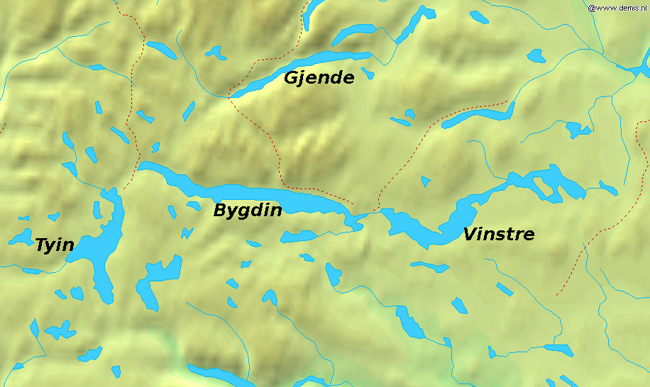 Annotated version of Image:La2-demis-bygdin.png. Information from there: Bounding box West 8°, South 61.15°, East 9.4°, North 61.55°. Center at 61°21′00″N 8°42′00″E / 61.35000°N 8.70000°E.